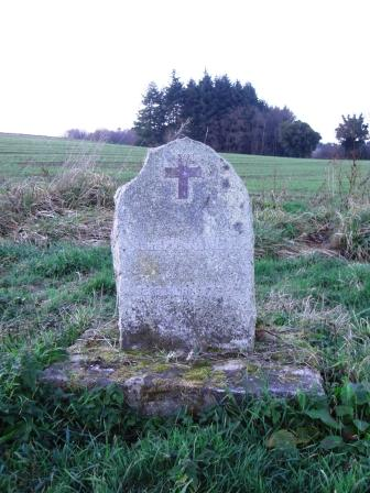 Carved Stone of PM JAMET.